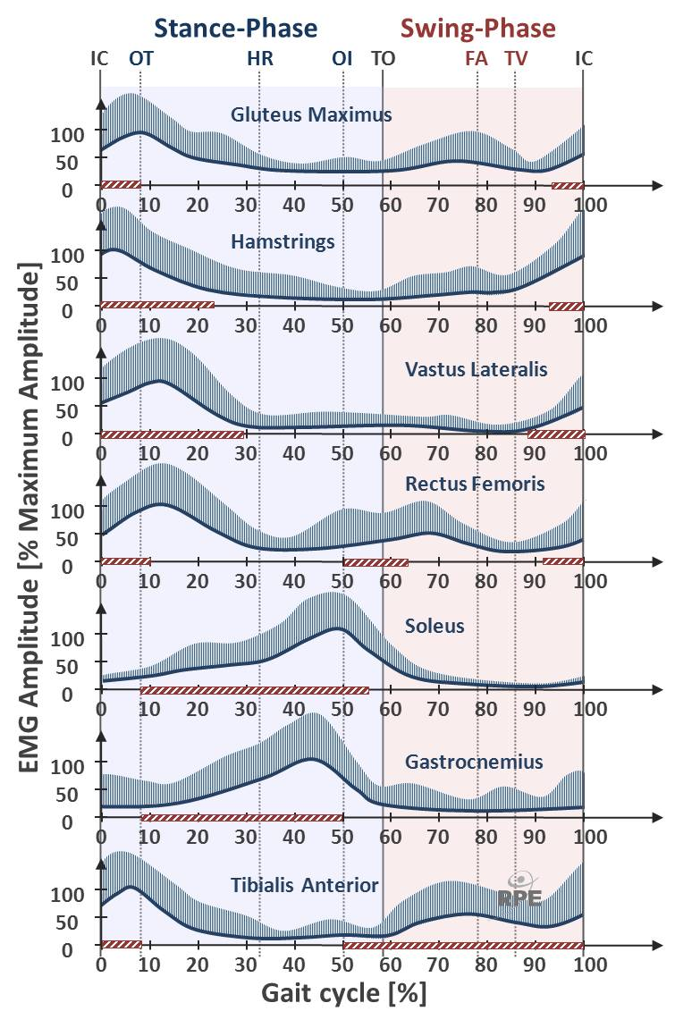 EMG-Pattern from the main active leg muscles during one gait cycle